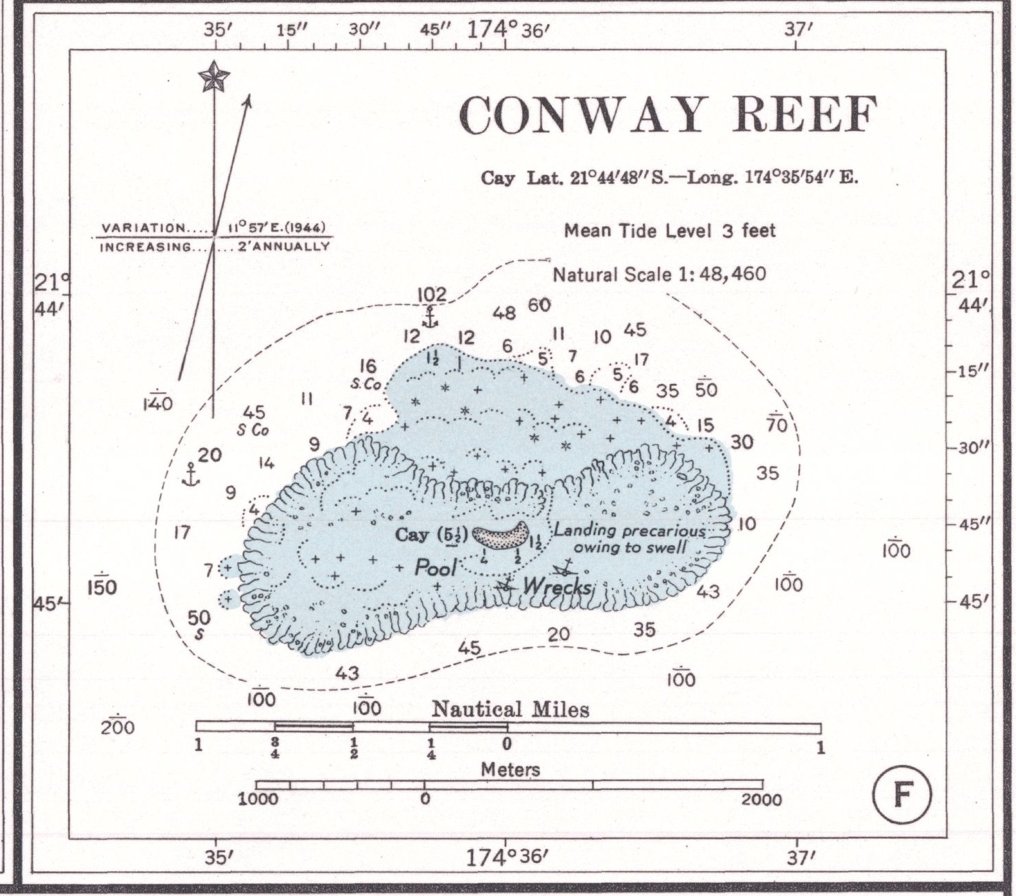 Old U.S. Nautical Chart of Aneityum and adjacent islands, South Pacific Ocean